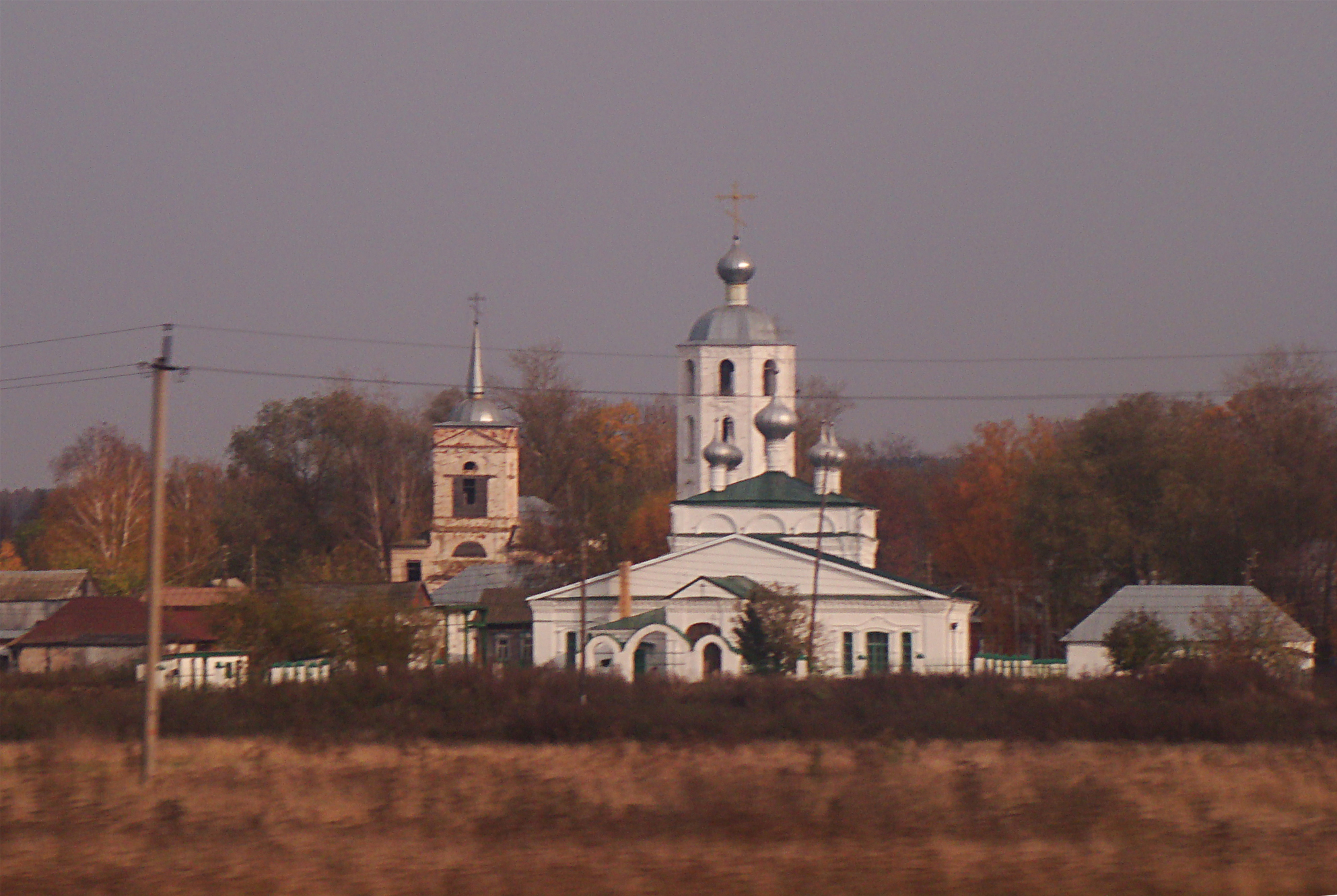 Holy Trinity Cathedral in Tsivilsk, Chuvashia, Russia